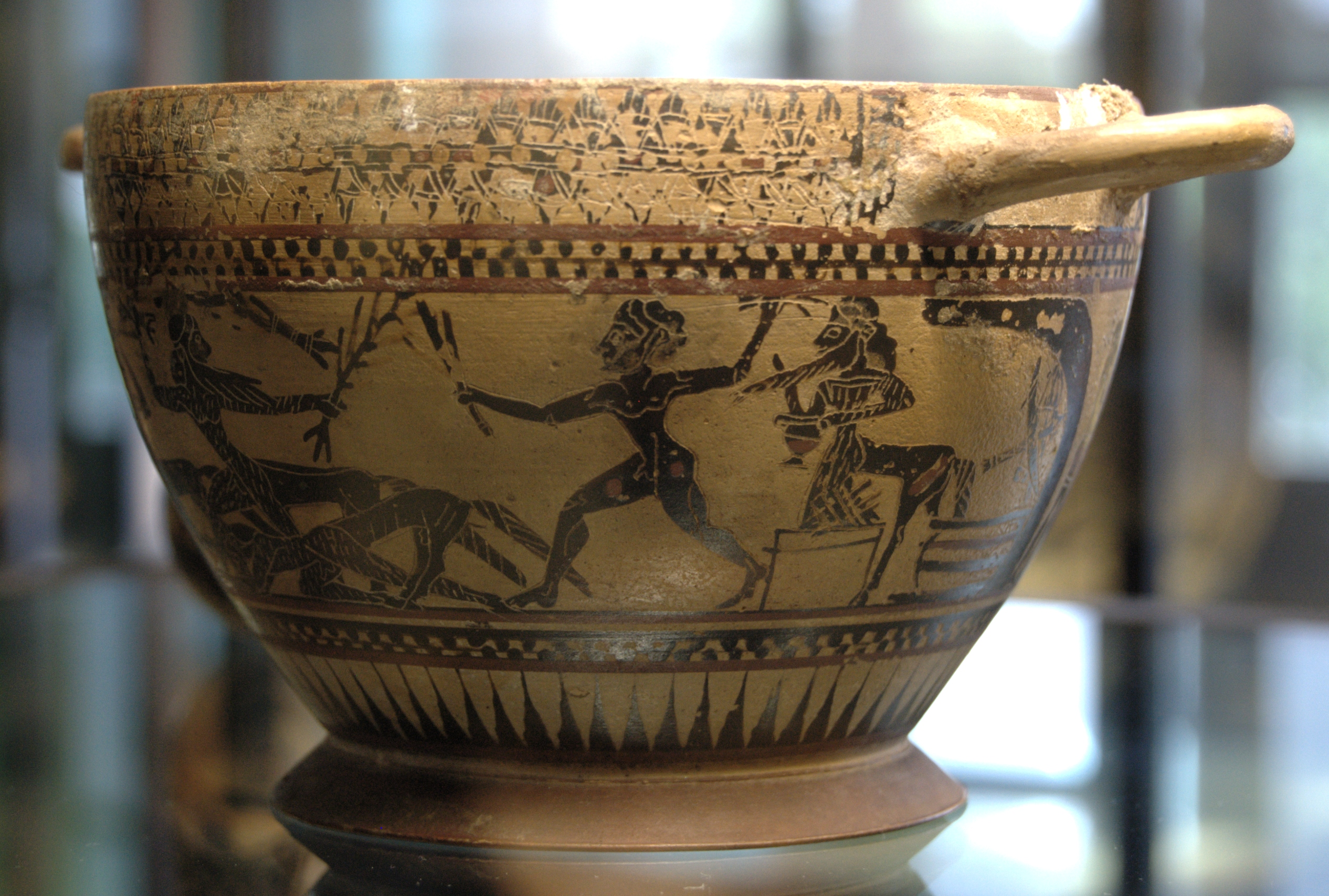 Heracles, Pholus and the centaurs. Black-figured skyphos, ca. 580 BC. From Corinthe.